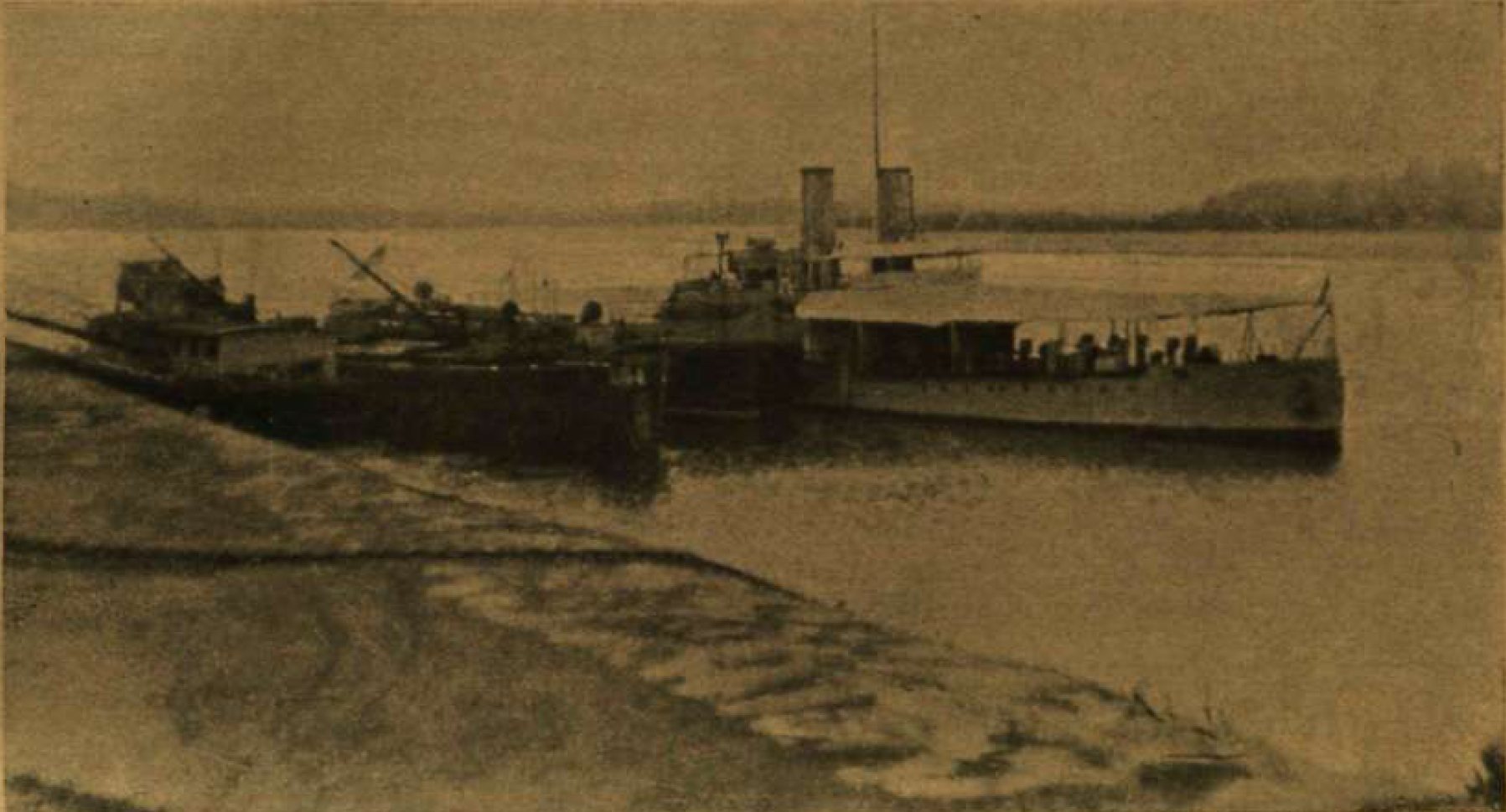 British monitor ship HMS Glowworm anchoring in Baja, Hungary. Published in the weekly periodical newspaper called Vasarnapi Ujság by the printing press inc. Franklin Irodalmi és Nyomdai Rt. in 1921.